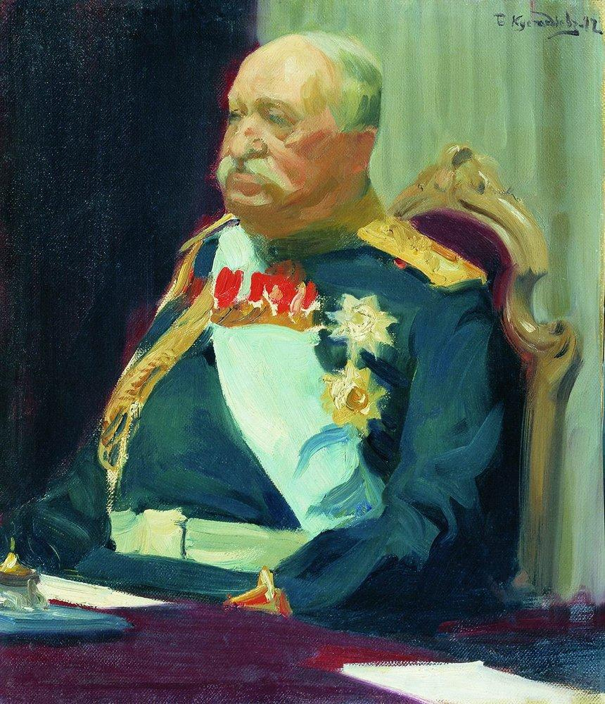 Portrait of infantry general and member of State Council Count Nikolai Pavlovich Ignatiev. Study for the picture Formal Session of the State Council. Oil on canvas. 57.8 × 48.8 cm. The State Tretyakov Gallery, Moscow.